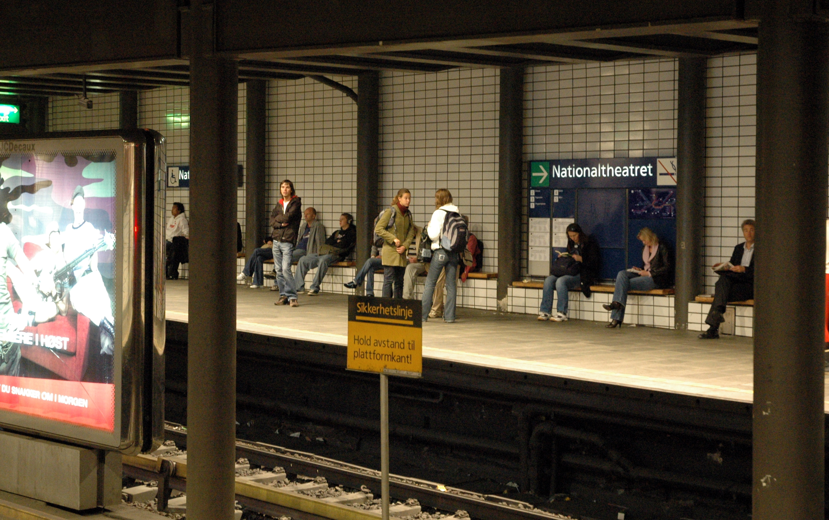 The westbound platform at Nationaltheatret metro station, Oslo, Norway.